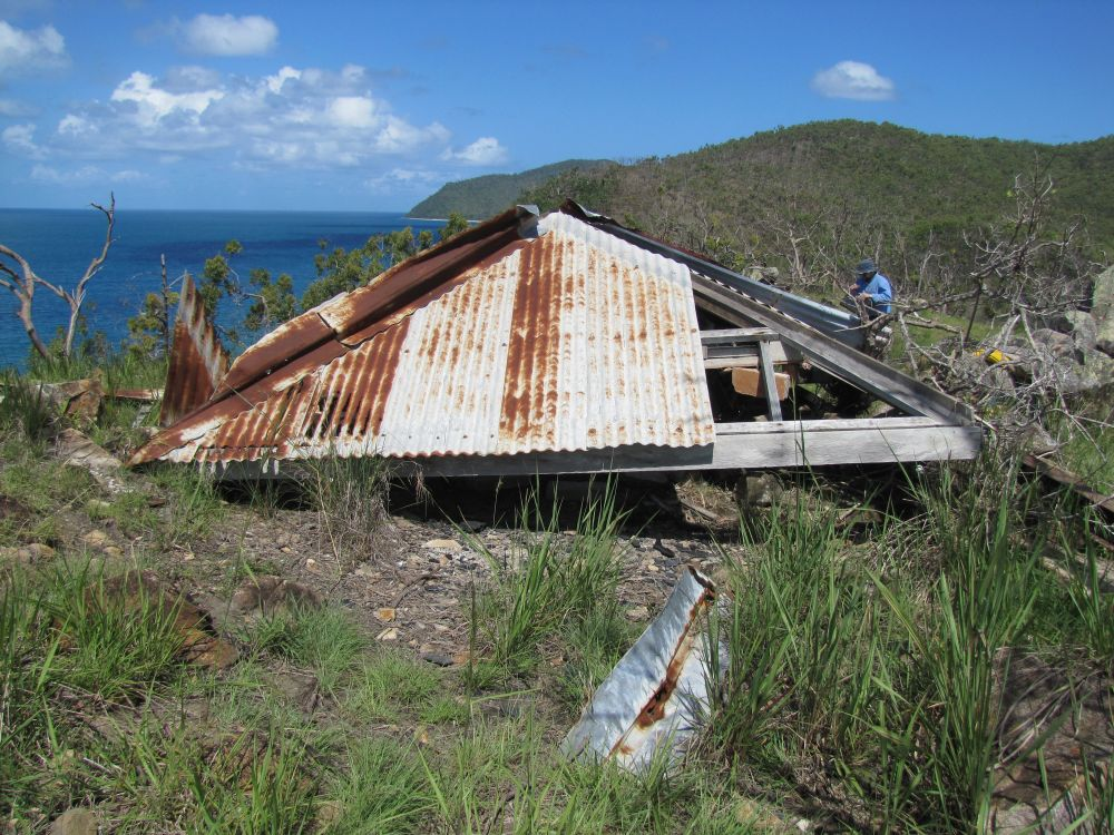 Collapsed structure near apex of signal hill from W (2011)